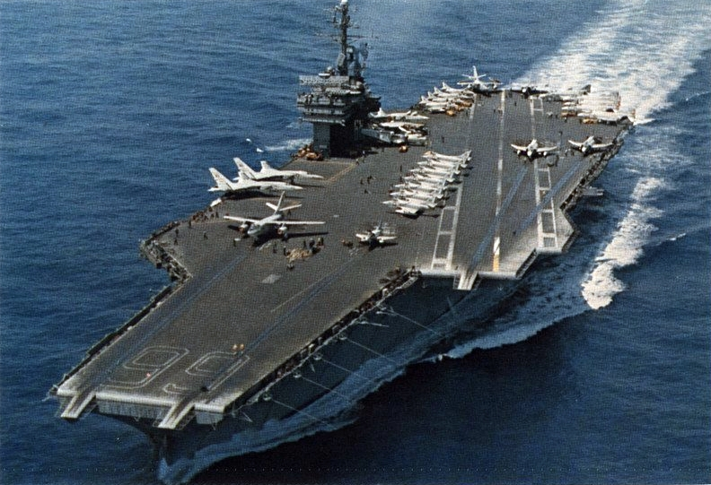 The U.S. Navy aircraft carrier USS America (CVA-66) underway. America with assigned Carrier Air Wing 6 (CVW-6) was deployed to the Mediterranean Sea from 10 January to 20 September 1967. Note: In the official description it is stated that this photo was taken off Vietnam, in 1968. However, the only time that America operated both the Grumman E-2A Hawkeye and the A-4C Skyhawk was in 1967.